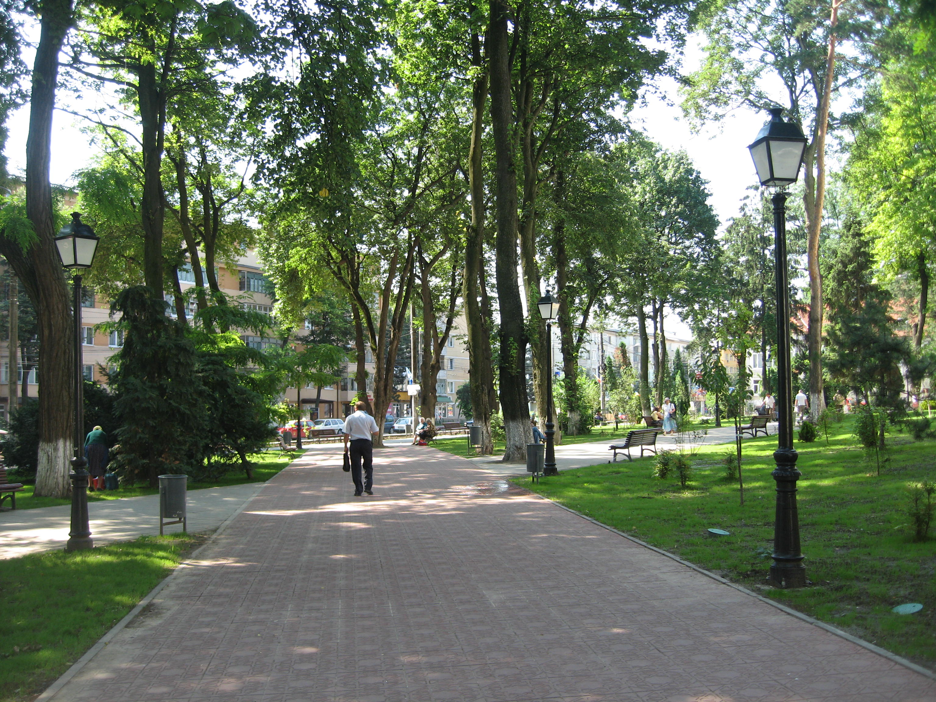 Professor Ioan Nemeş Park in Suceava.